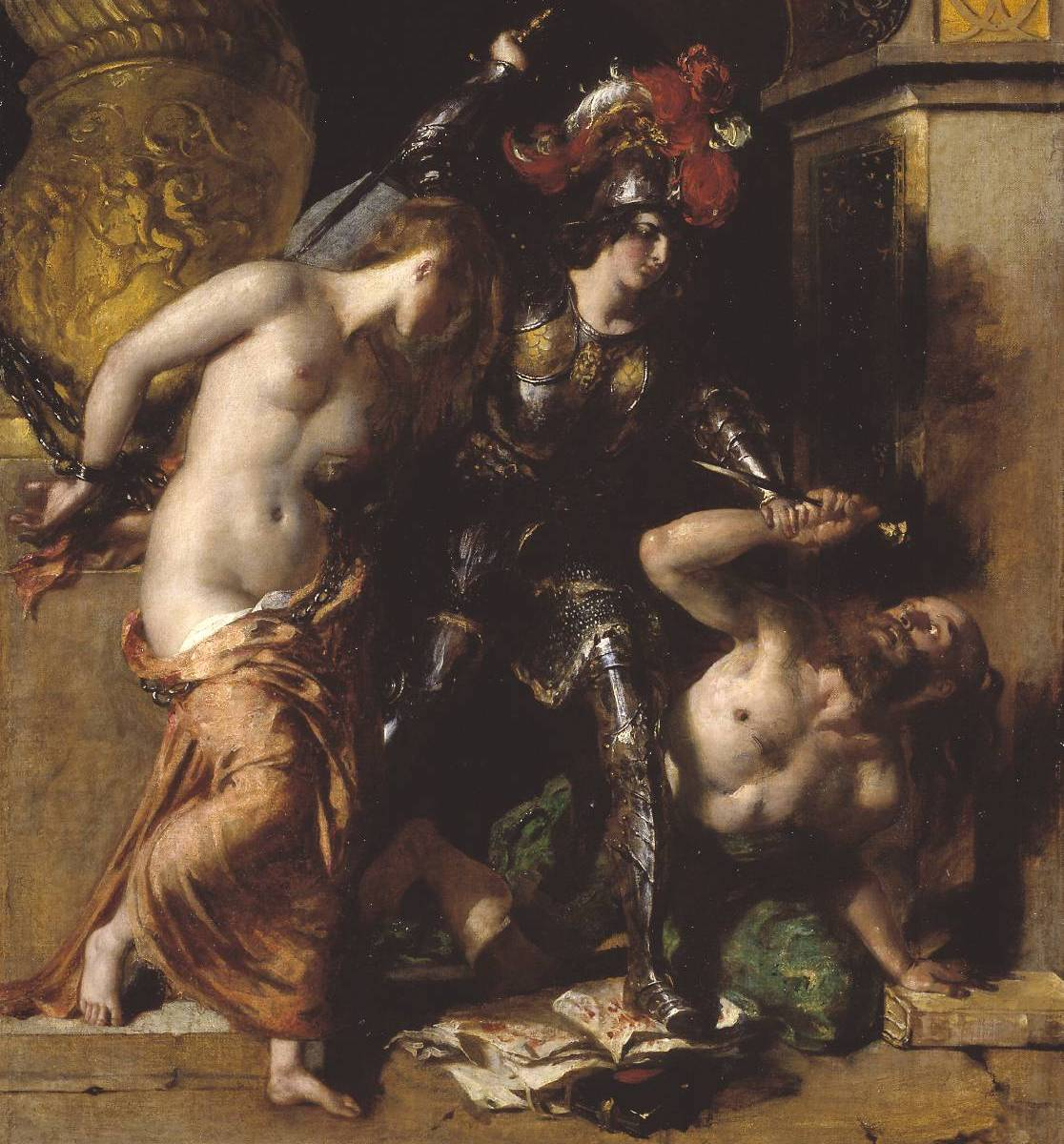 crop to show central figures only